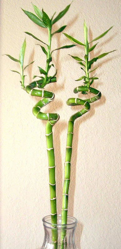 Lucky bamboo spiral houseplant